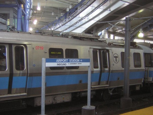 A train of then-new Siemens 0700 Blue Line cars at Airport Station in 2009